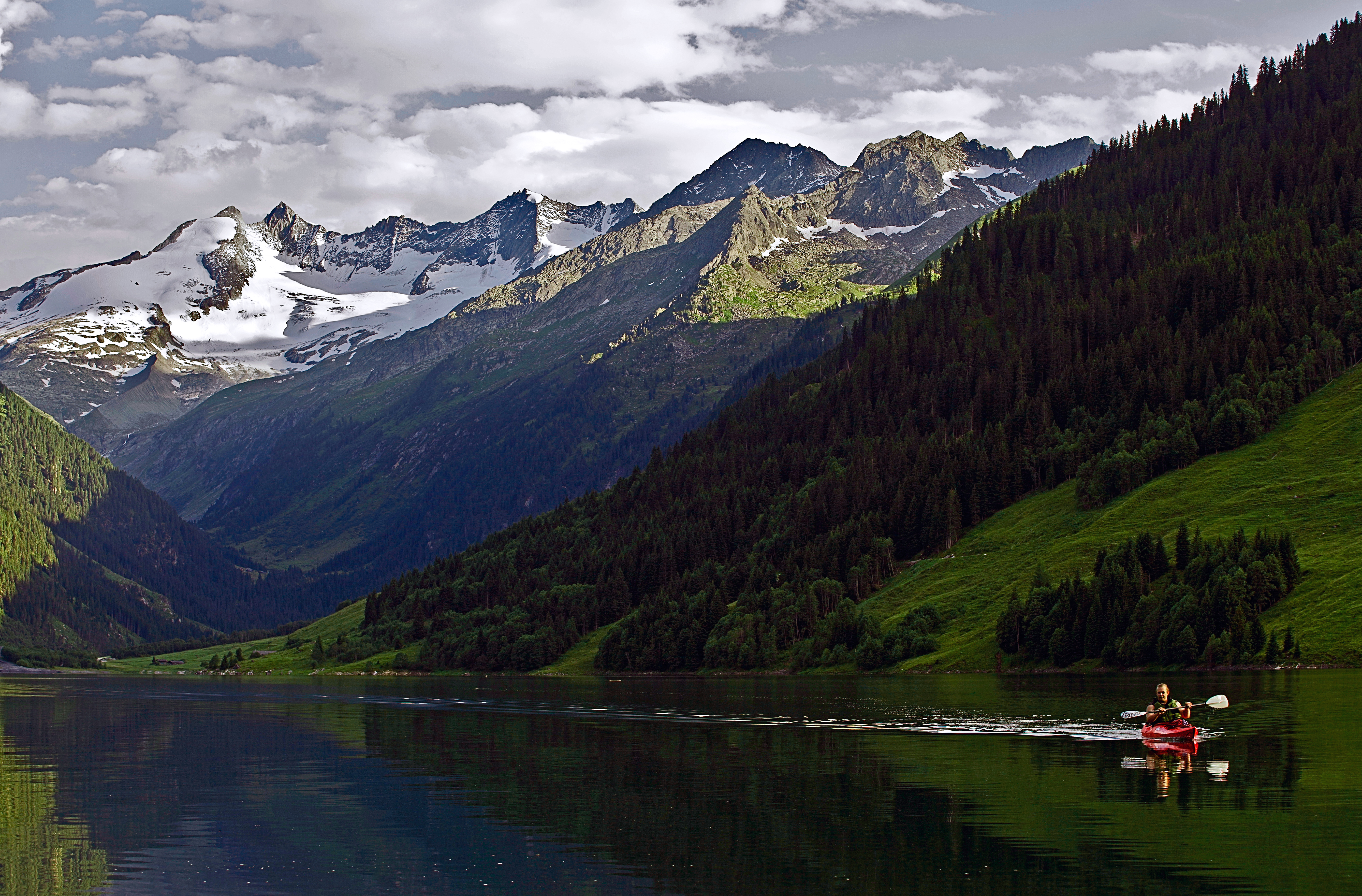 Gerlos Stausee